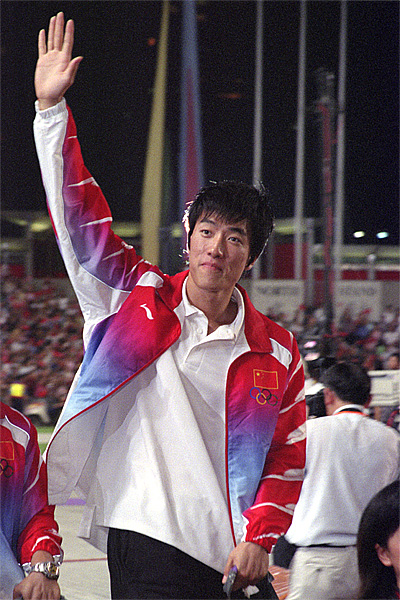 Liu xiang, Chinese athlete. Photo taken in Hong Kong Stadium, 2004.